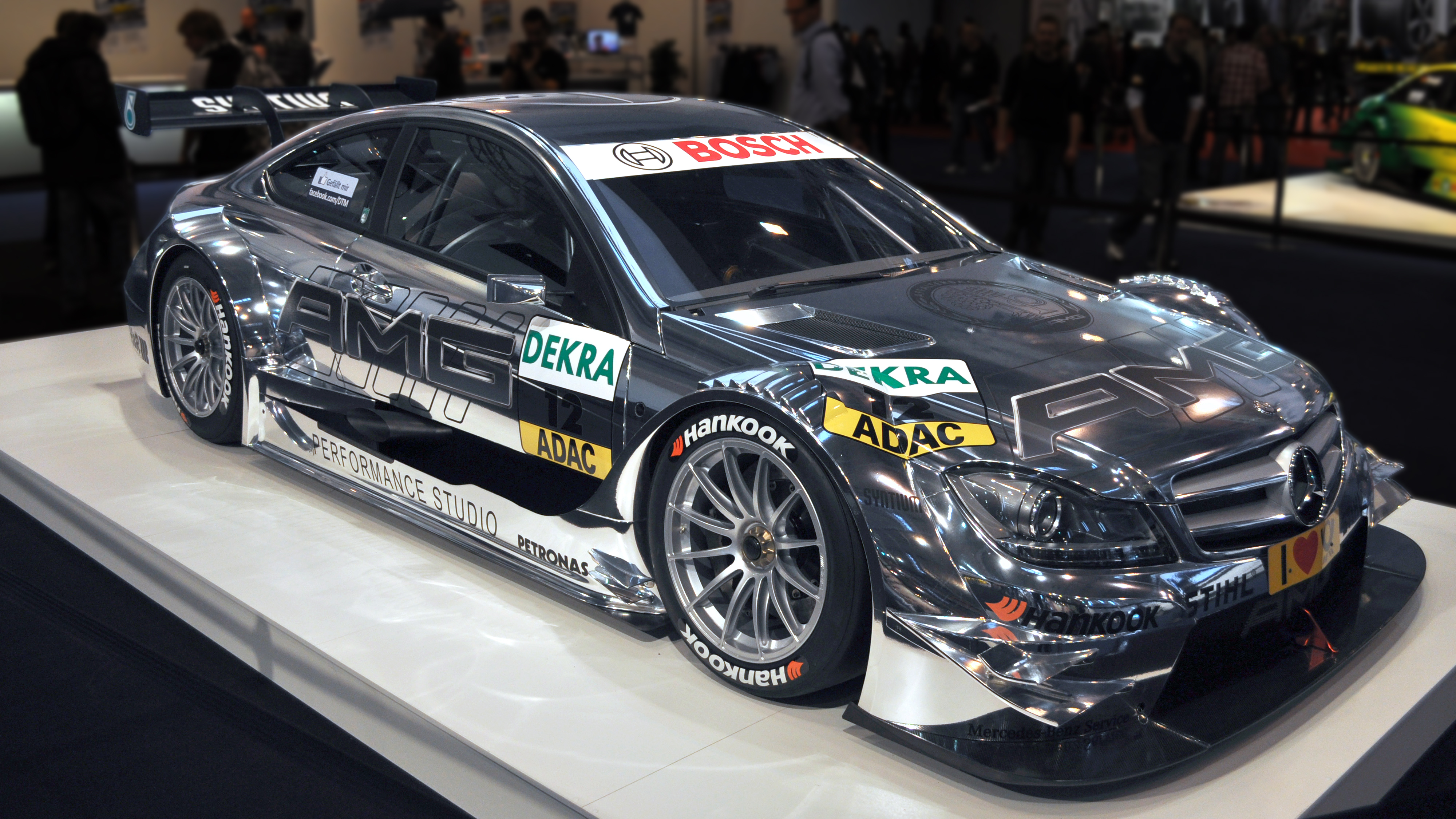 DTM AMG Mercedes C-Coupé 2012 (C204) at the Essen Motor Show 2011